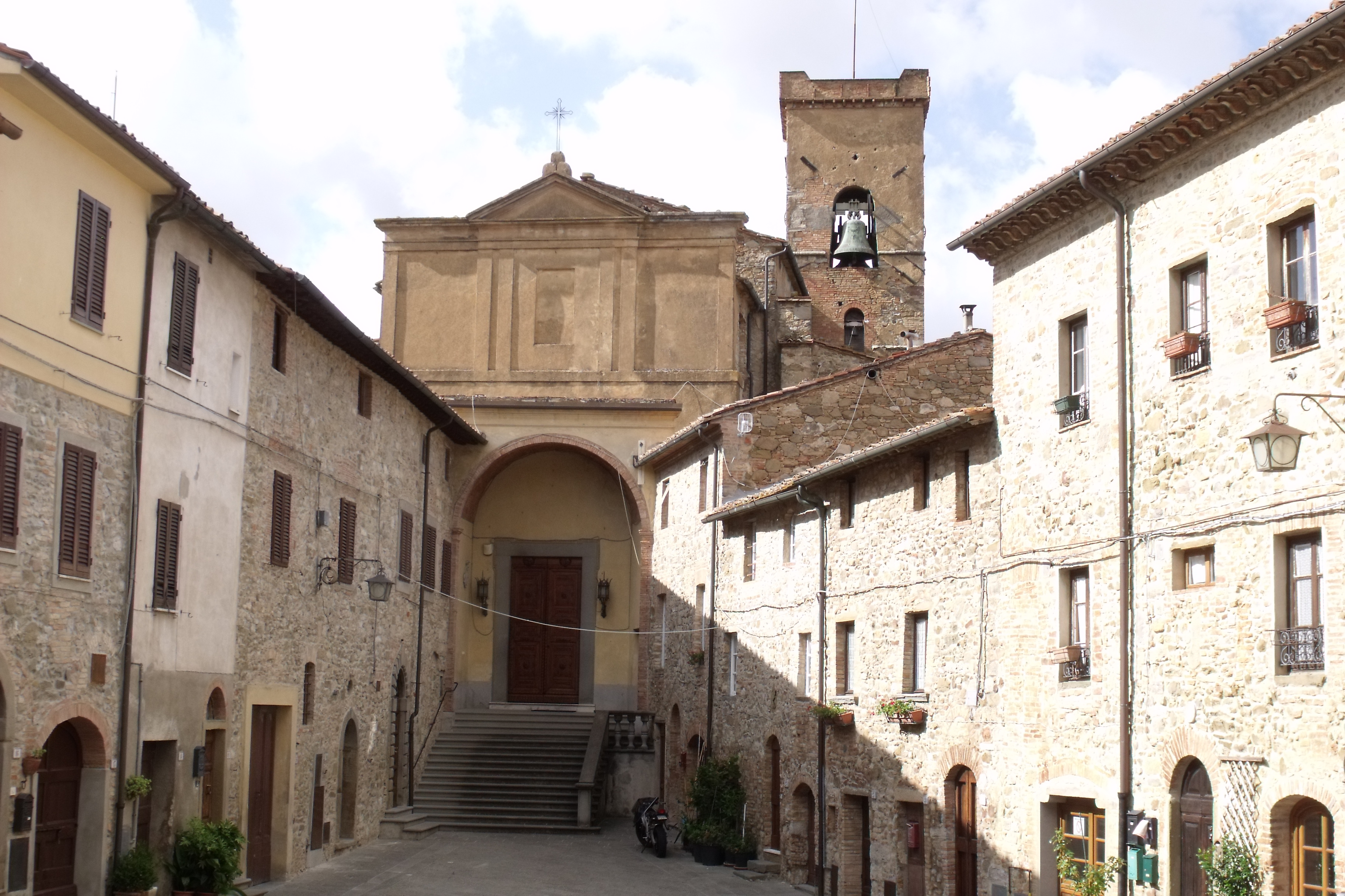 Church Chiesa di San Donato in Chianni, Province of Pisa, Tuscany, Italy